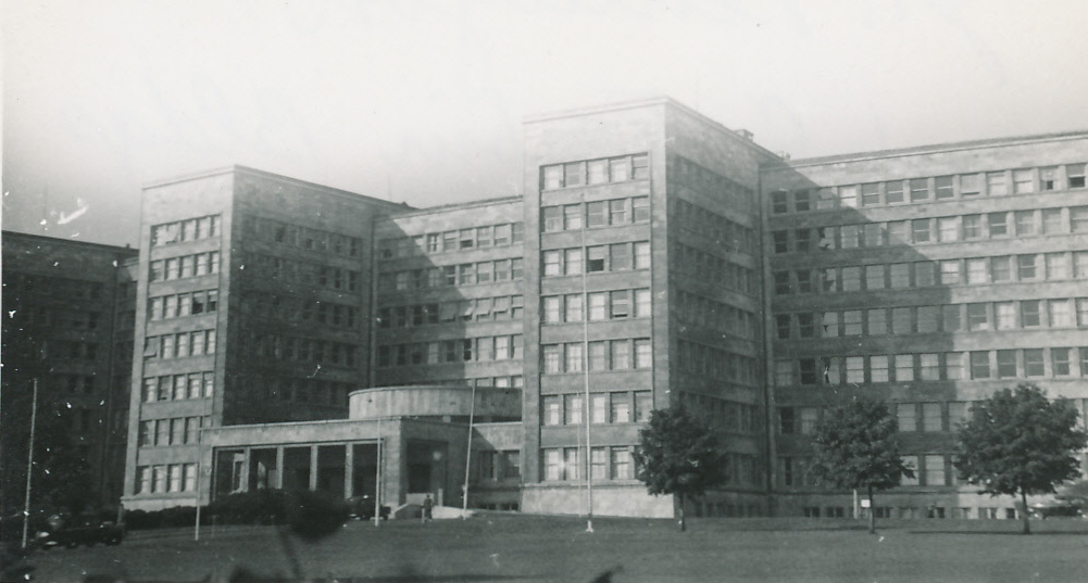 IG Farben Building, Headquarters of United States European Command (EUCOM) in Frankfurt, Germany during the "Trizonia" period